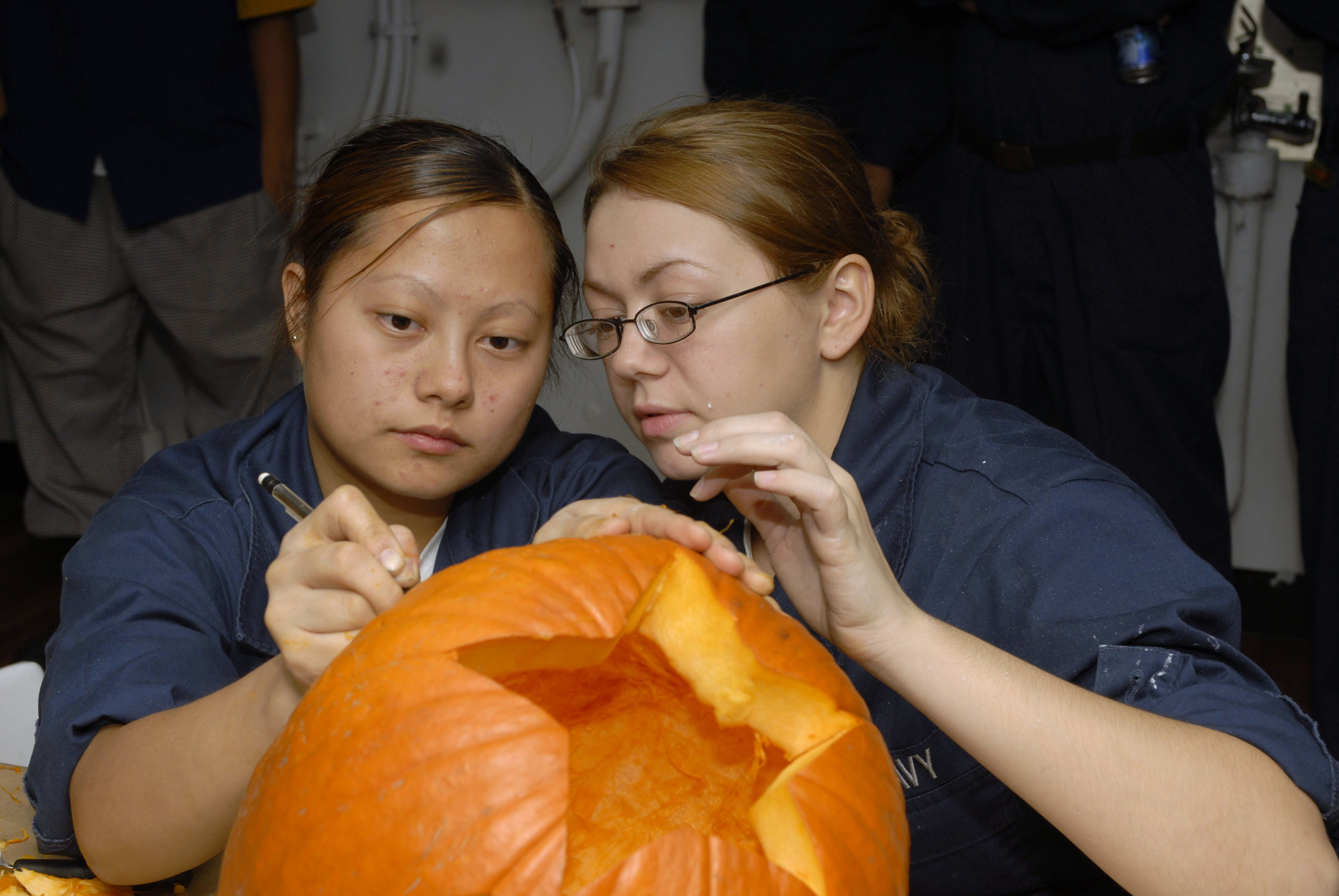 PACIFIC OCEAN (Oct. 21, 2007) - Aviation Ordnance Specialist Airman Darlene Vue, and Aviation Support Equipment Technician Airman Chelsea Thompson carve a pumpkin during a Morale, Welfare and Recreation (MWR)-sponsored event on the mess decks of the USS Essex (LHD 2). Essex is the only permanently forward-deployed amphibious assault ship and serves Task Force 76. U.S. Navy photo by Mass Communication Specialist Seaman Andrew Brantley (RELEASED)